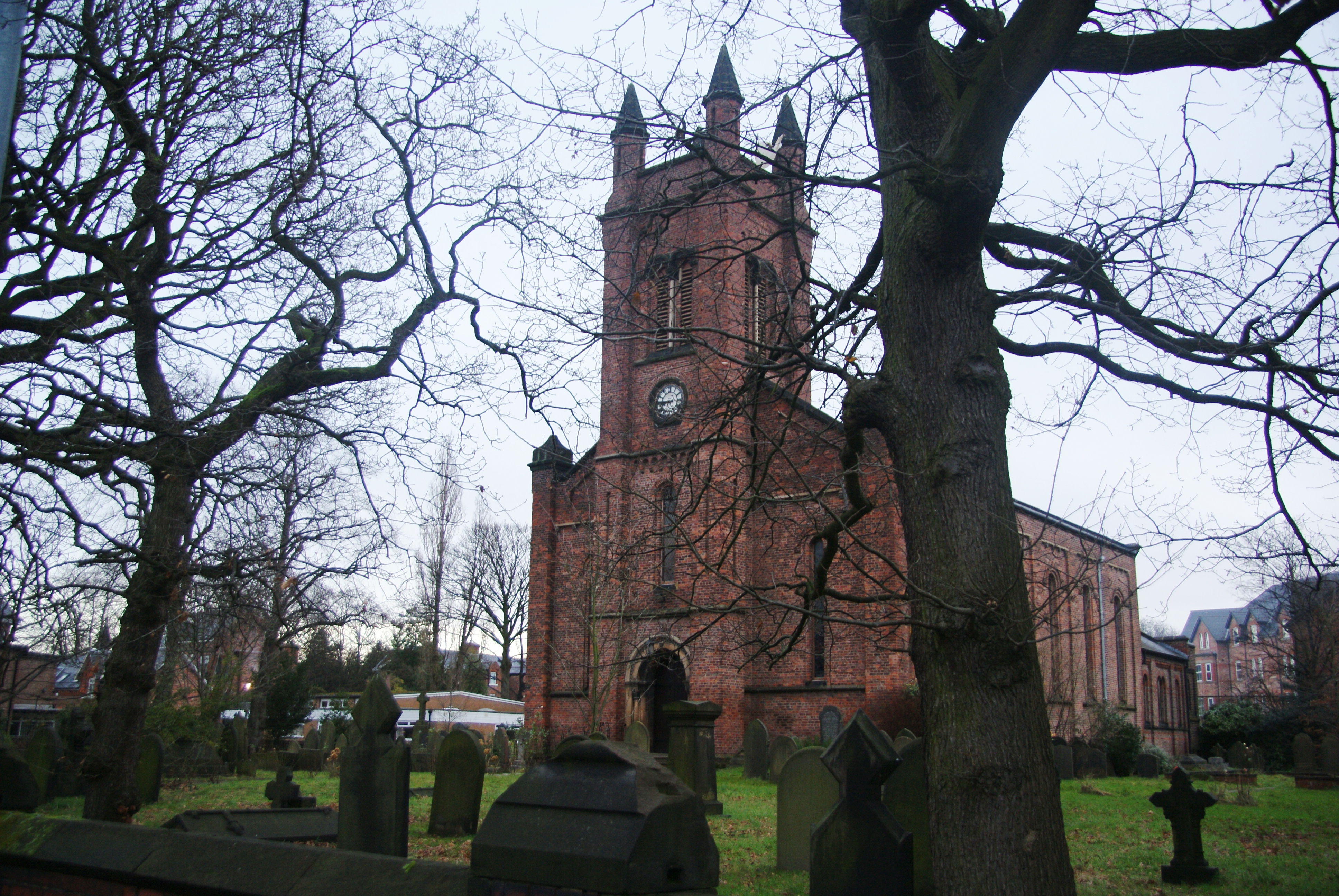 Photograph of St Paul's Church, Withington, Manchester, England